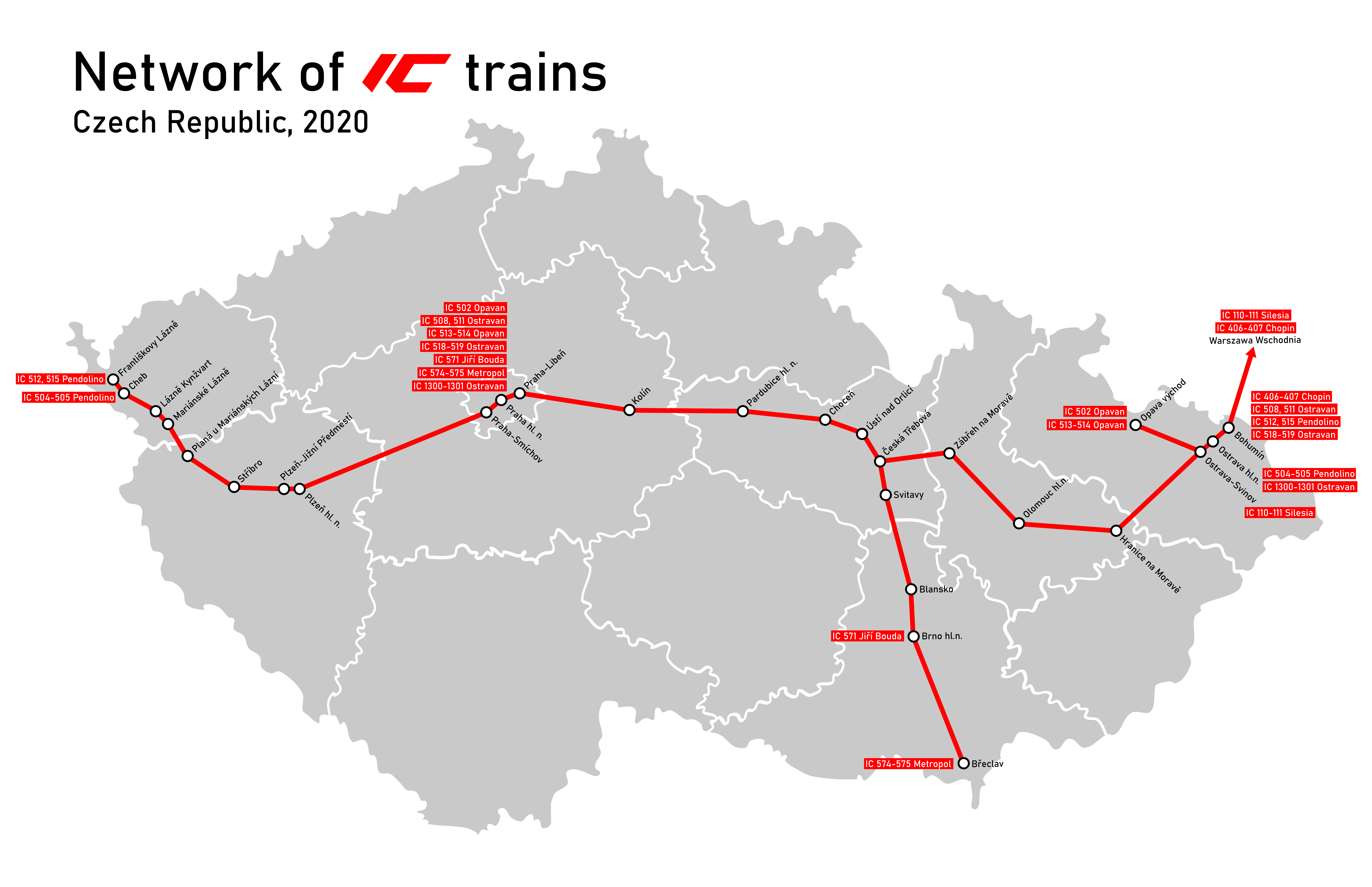 Network of IC trains of Czech Republic as of 2020.